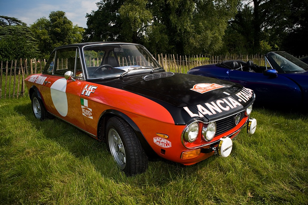 Lancia Fulvia Coupé 1.3 MkII, raised headlights (version for England), 1971